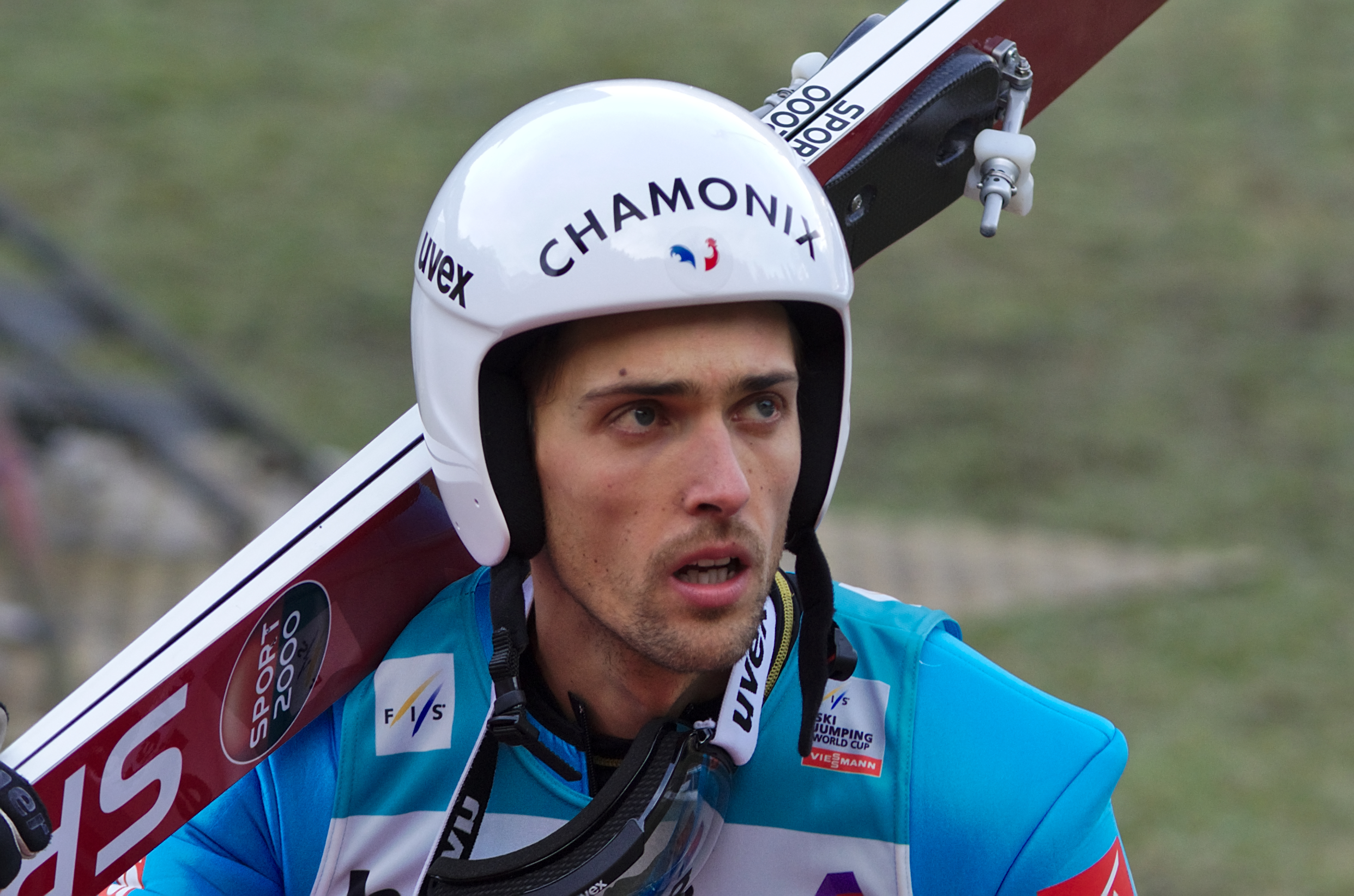 FIS Ski Jumping World Cup 2014 - Engelberg - 20141221 - Vincent Descombes Sevoie